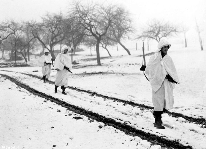 Battle of the bulge - Three members of an American patrol cross a snow covered Luxembourg field on a scouting mission. White bedsheets camouflage them in the snow. Left to right: Sgt. James Storey, Newman, Ga.; Pvt. Frank A. Fox, Wilmington, Del., and Cpl. Dennis Lavanoha, Harrisville, N.Y. (30 Dec 1944). Lellig, Luxembourg